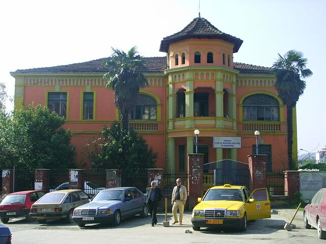 Tirana, capital of Albania